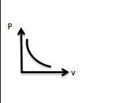 when T is constant